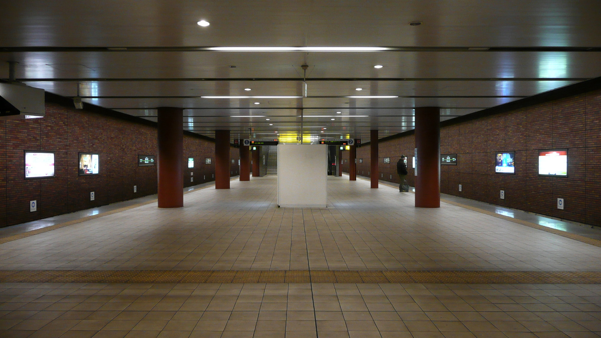 Yokohama Minatomirai Railway,Bashamichi Station platform. / みなとみらい線馬車道駅ホーム